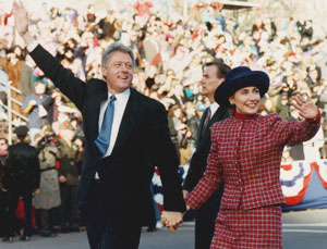 Walking along the Inaugural parade route, January 20.